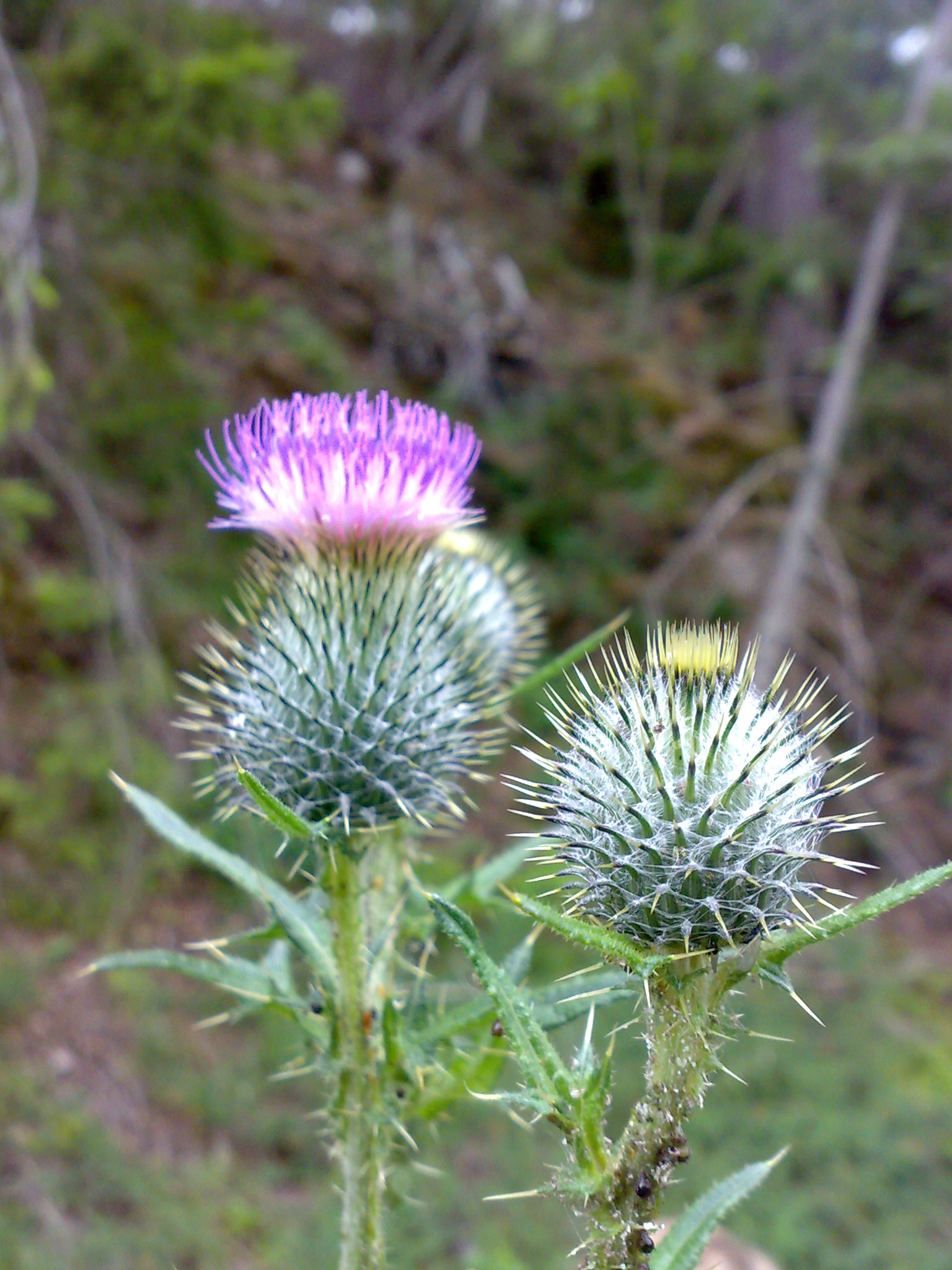 c in Hurum, Norway